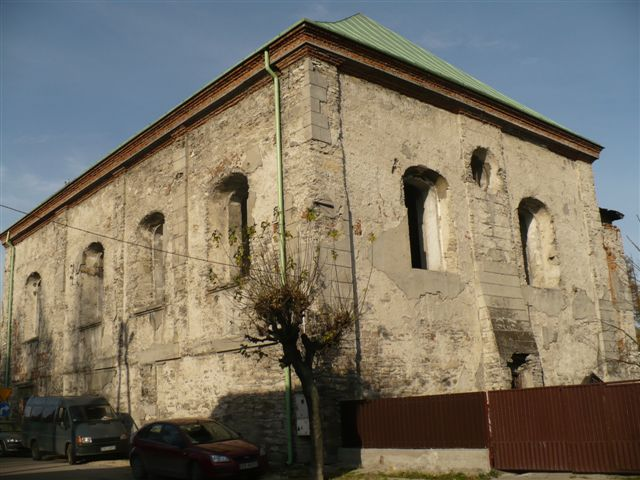 Synagogue in Chmielnik